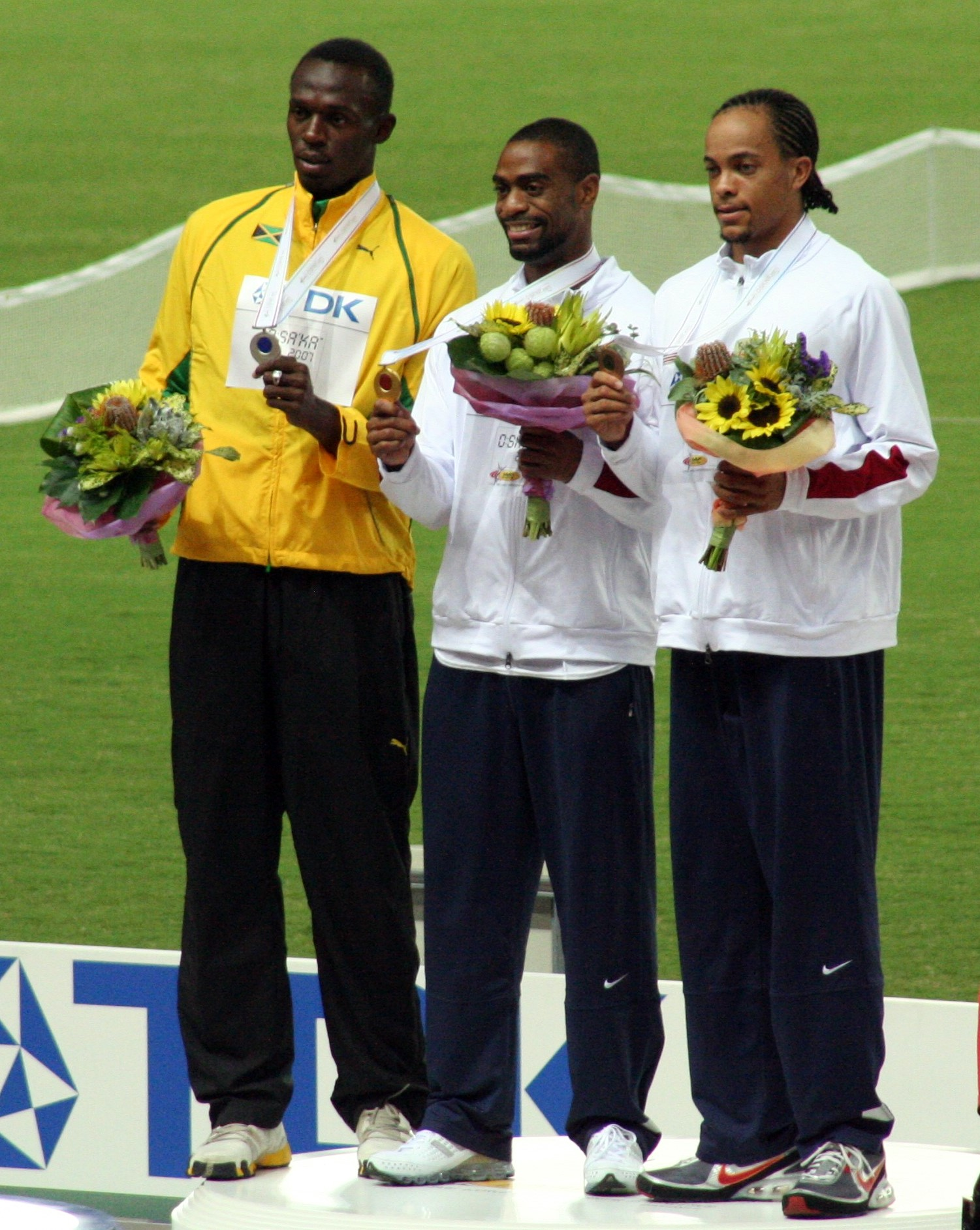 World Athletics Championships 2007 in Osaka - Victory ceremony for the men*s 200 metres. Winner Tyson Gay is in the center